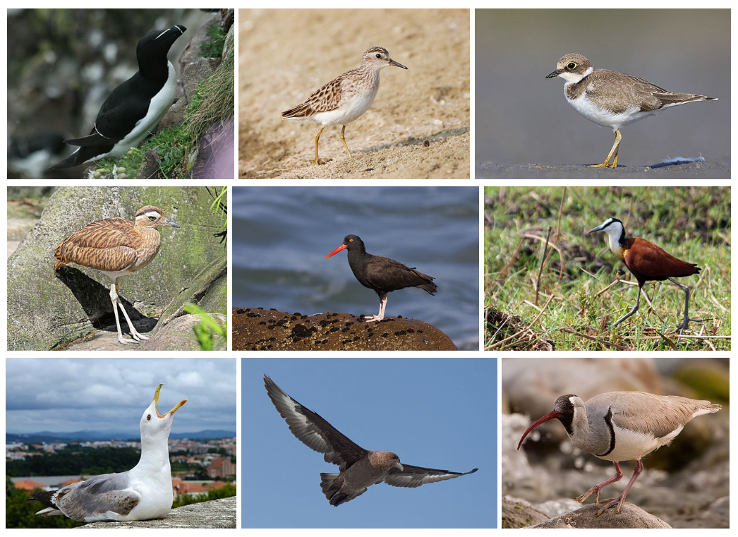 Charadriiformes